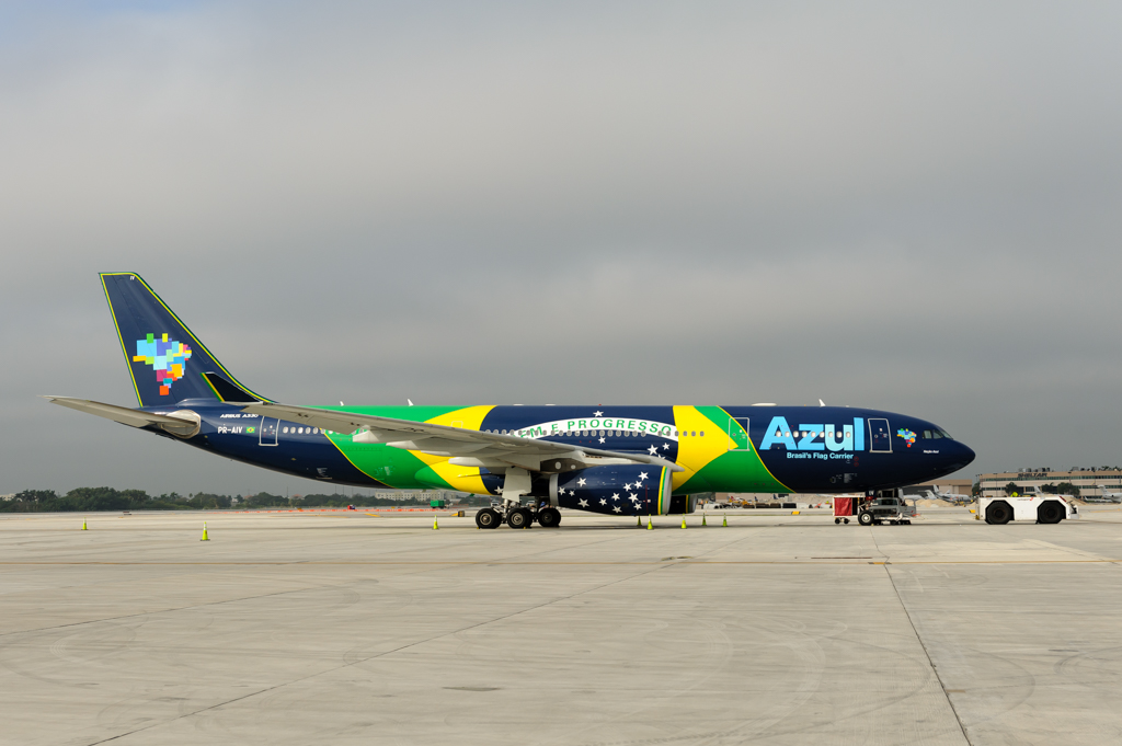 Azul flagship A330 PR-AIV in Ft. Lauderdale in January 2015